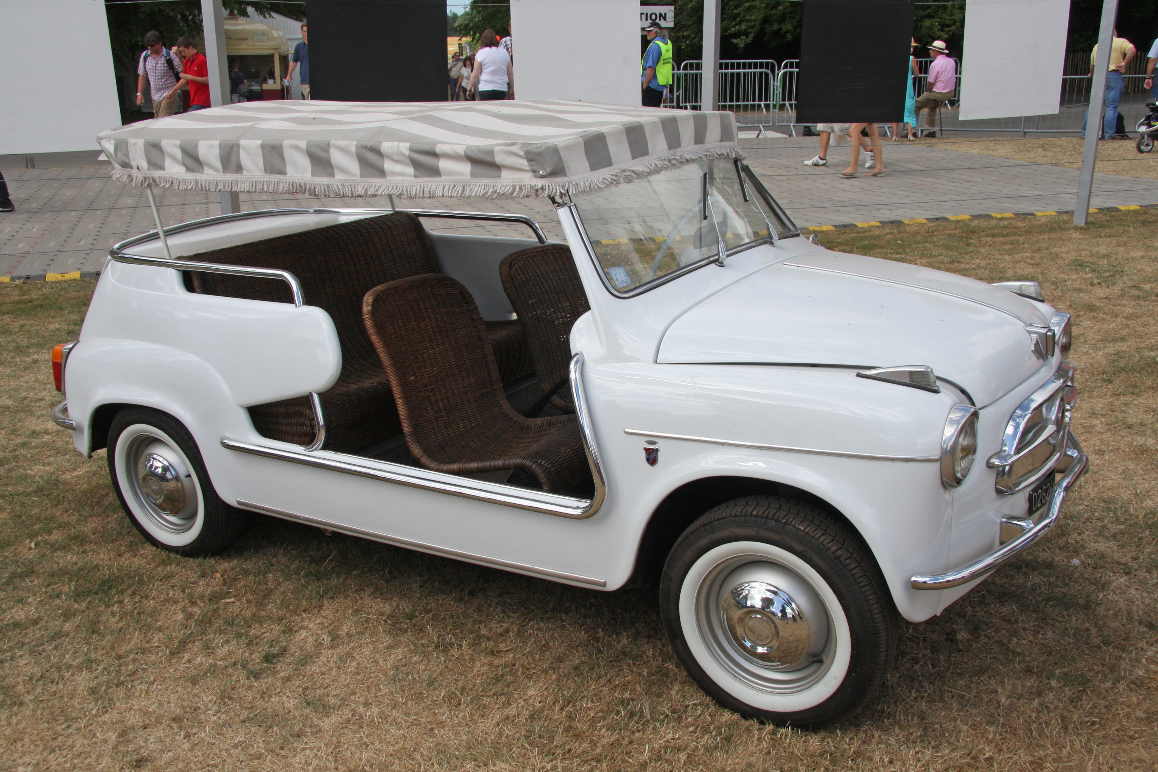 1969 Fiat 600 Jolly